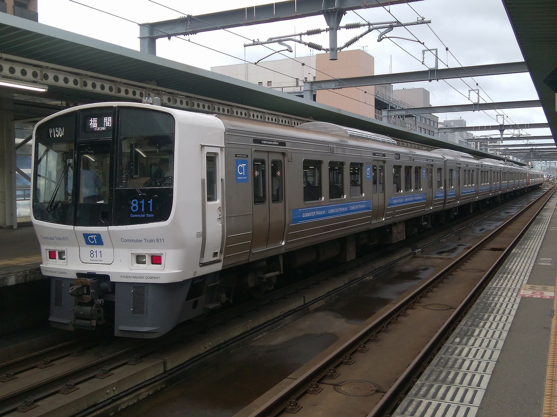 JR Kyushu 811-1500 series refurbished EMU set P1504 at Yoshizuka Station in Fukuoka, Japan